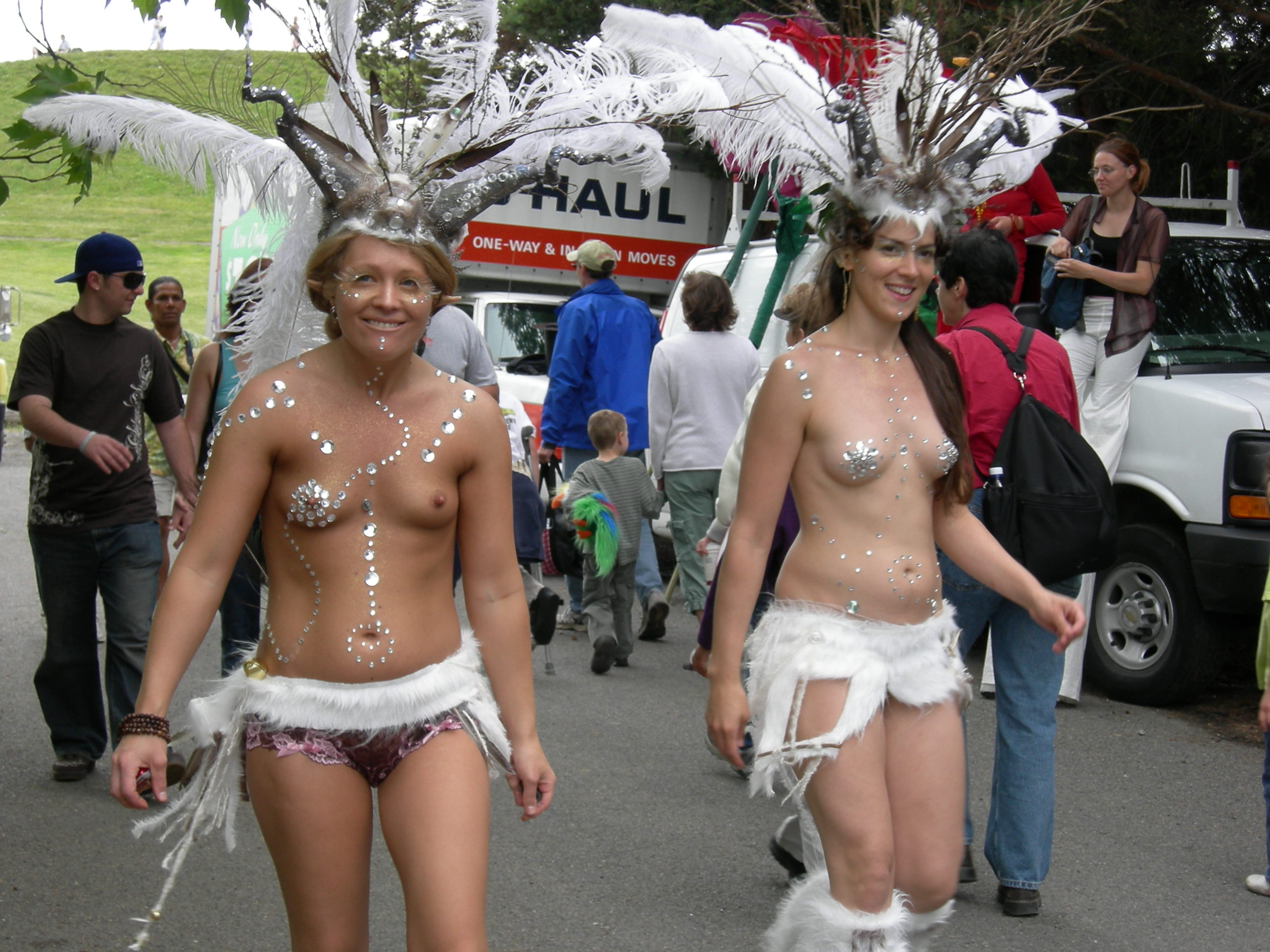 Samba dancers at Gas Works Park after 2007 Summer Solstice Parade, Fremont Fair, Seattle, Washington.